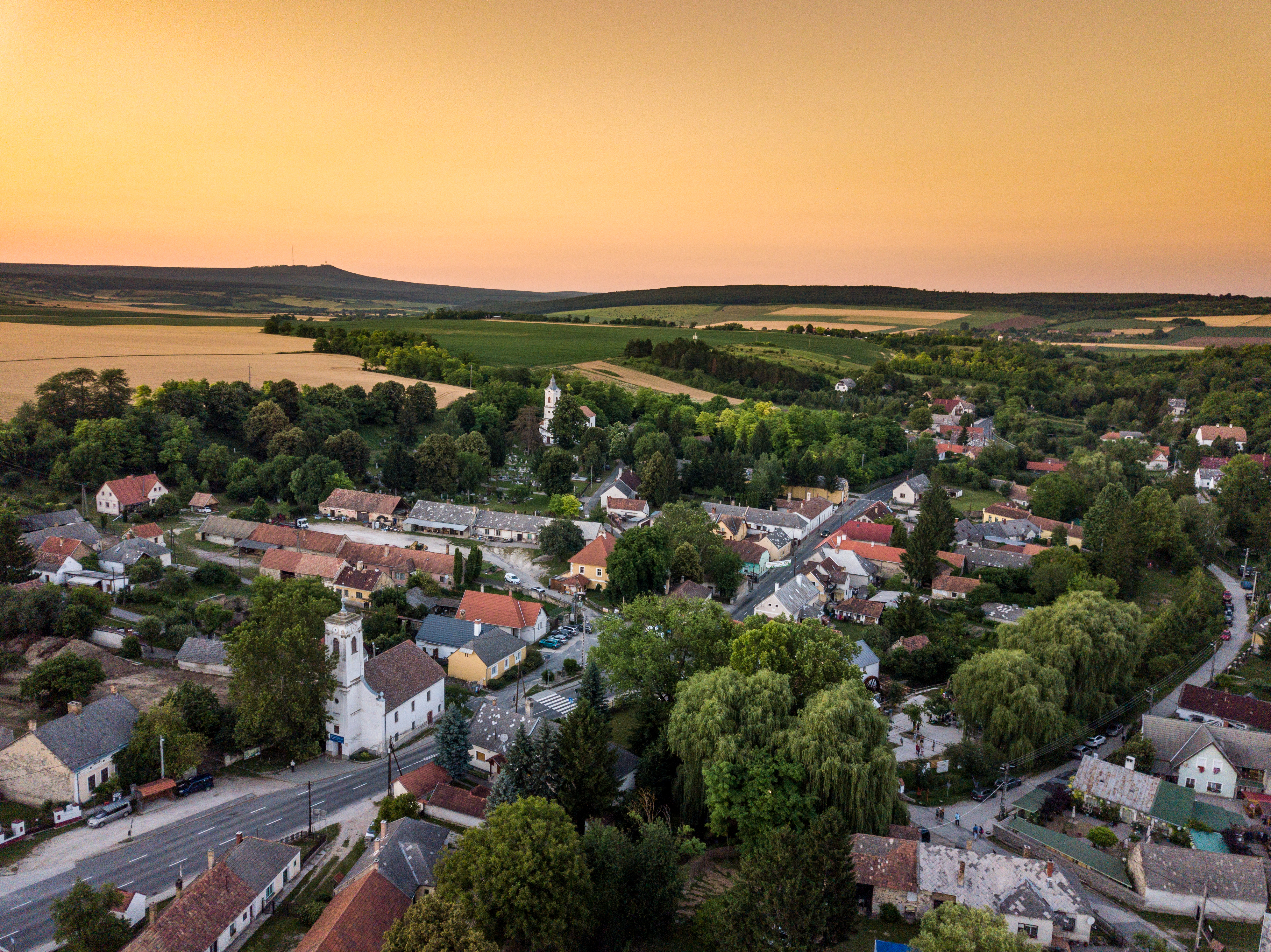 Kapolcs from above